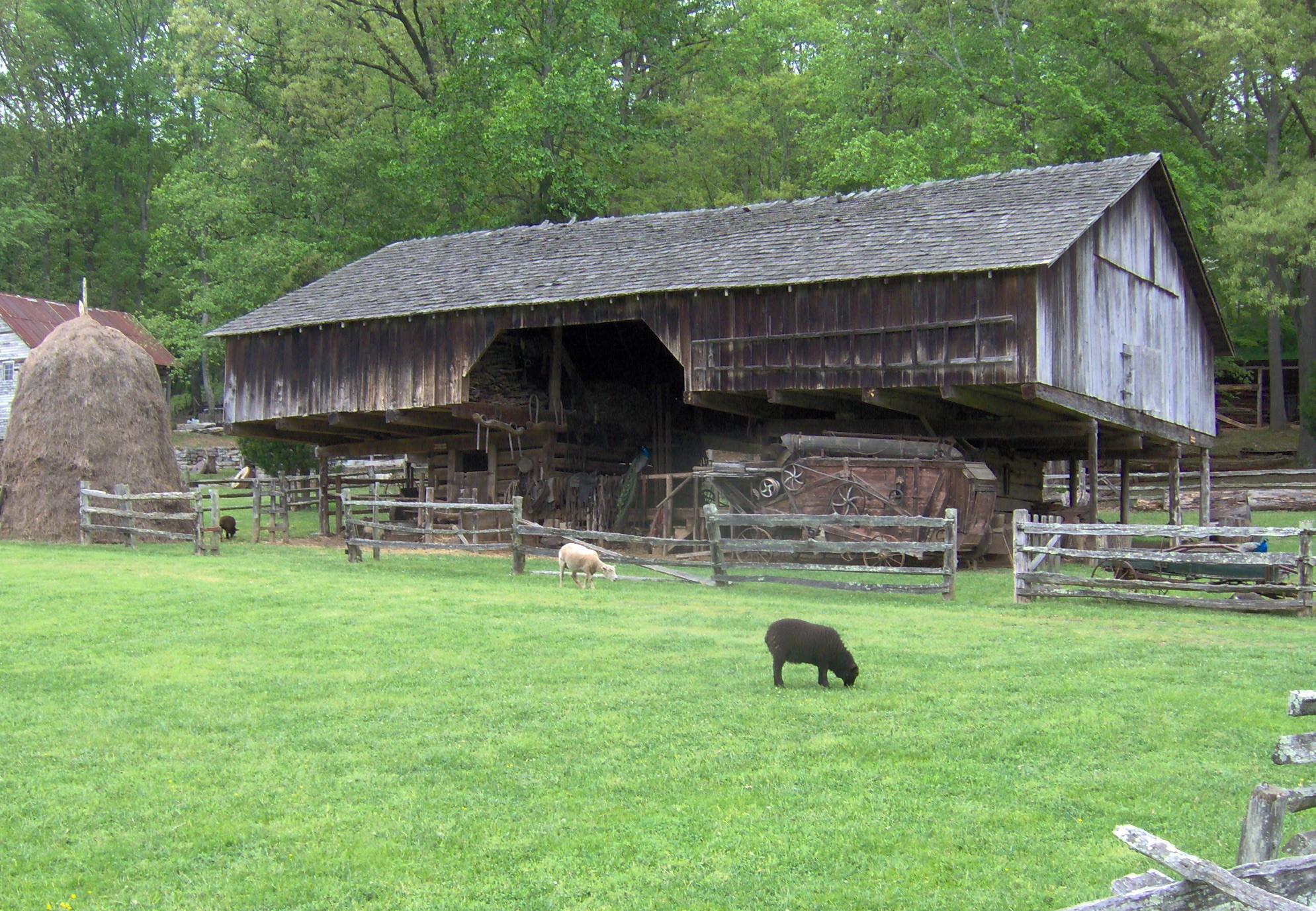 Cantilever (or "Overhang") barn at the Museum of Appalachia in Norris, Tennessee, USA. This barn was originally located near Seymour, Tennessee. The Appalachian cantilever barn, derived from similar European barn designs, is rarely found in the United States outside the mountains of East Tennessee.